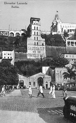 Old postcard of Salvador - Bahia - Brazil: The "Elevador Lacerda" in 1920